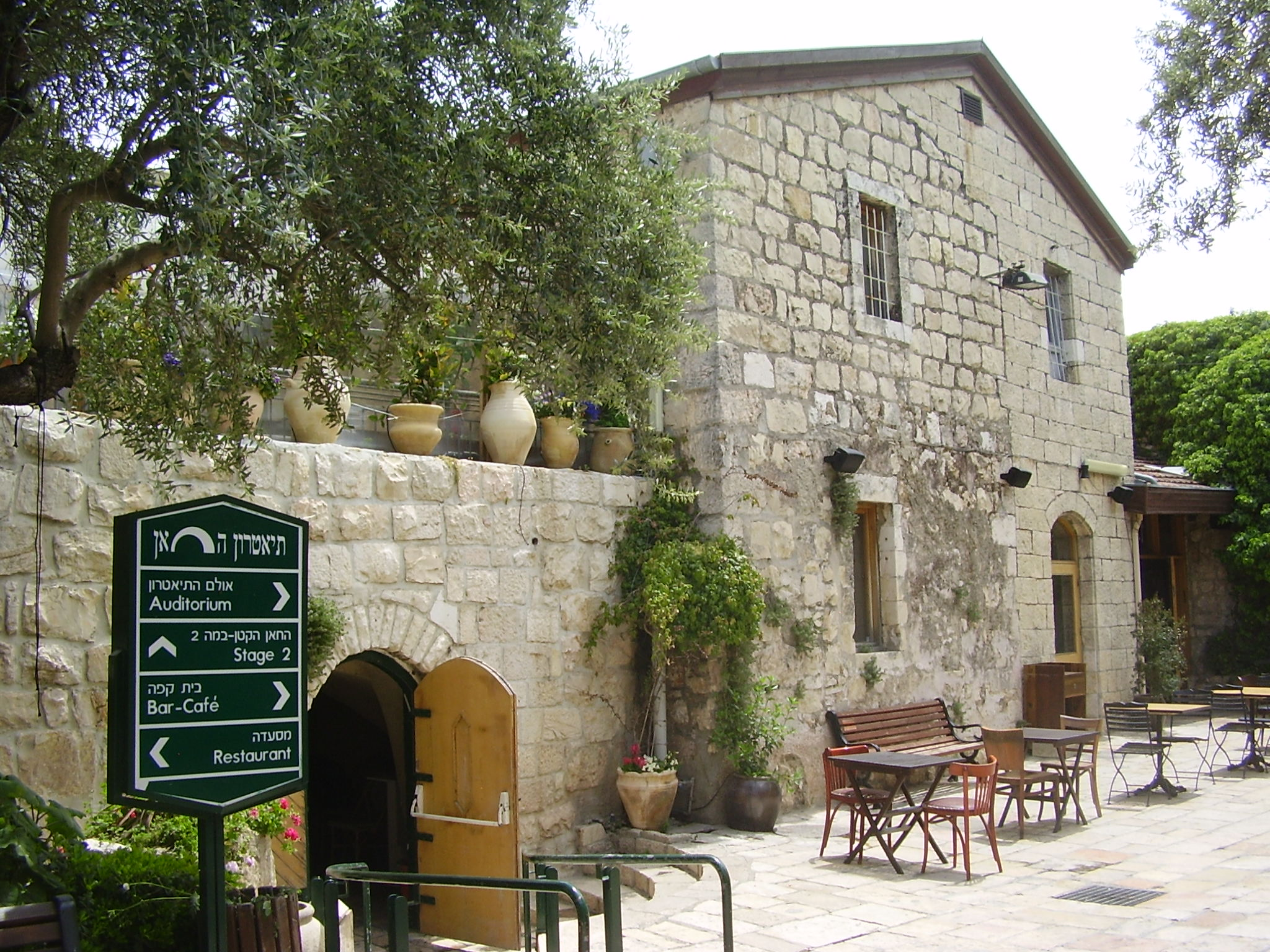 jerusalem khan theatre